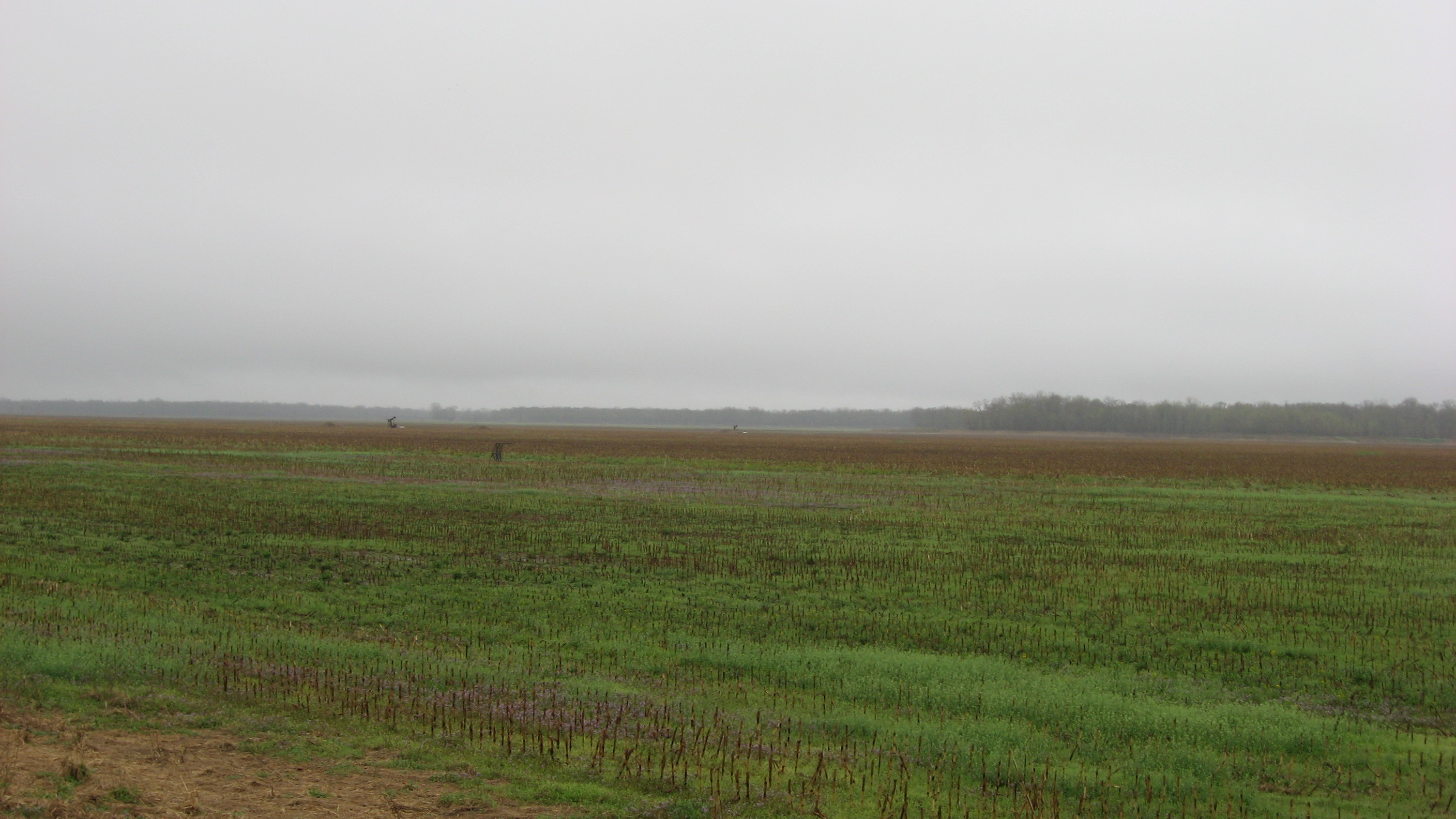 Overview of the Duffy Site, located off Sally Hardin Road southeast of New Haven in New Haven Township, Gallatin County, Illinois, United States. As an important archaeological site, it is listed on the National Register of Historic Places.